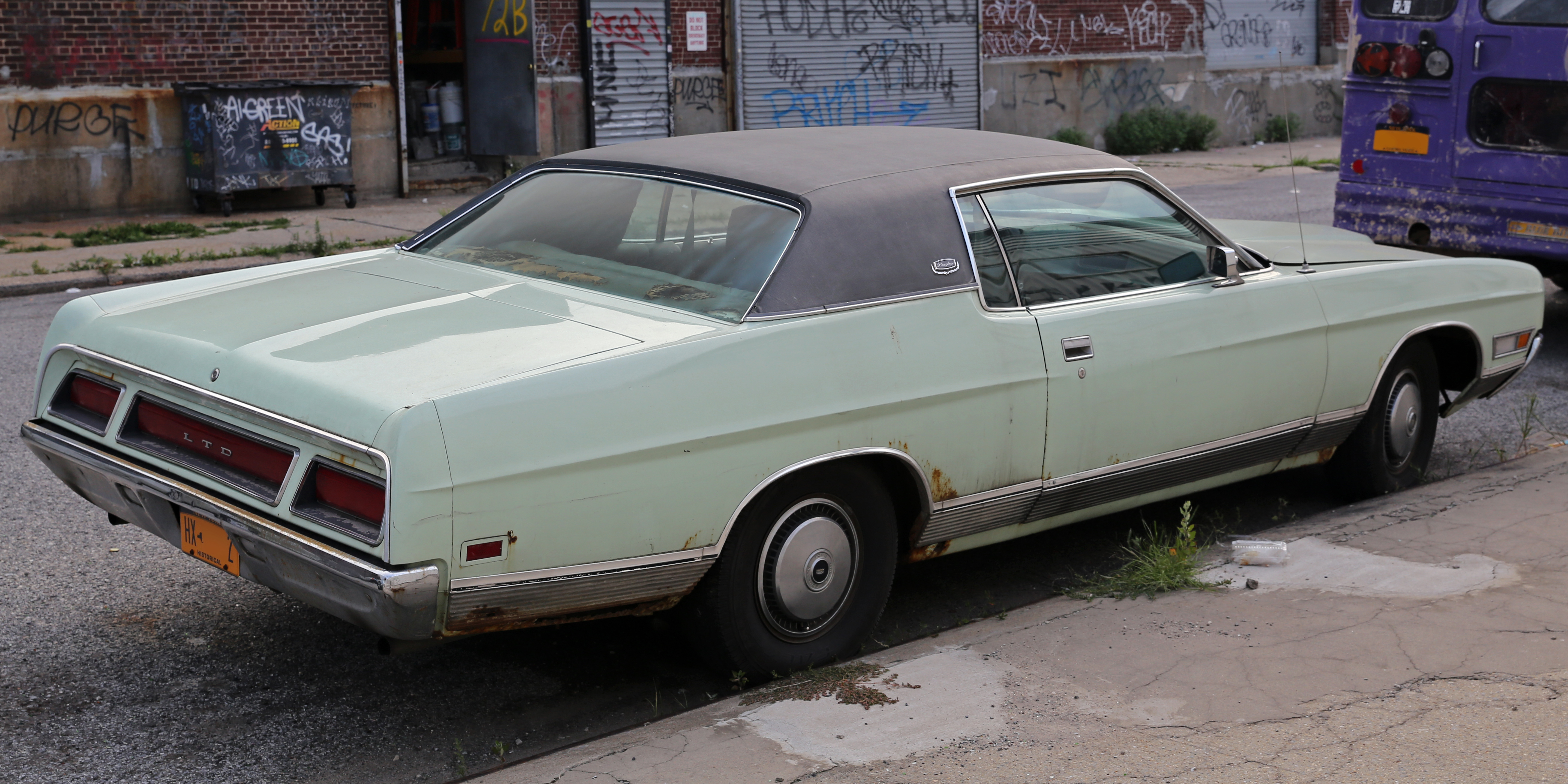 Rear right view of a 1971 Ford LTD Brougham 2-door hardtop (bodystyle 68) with the two-barrel 429 cubic inch big block V8 (engine code "K"), built in Los Angeles, CA. A bit scruffy perhaps, but so is the neighborhood.